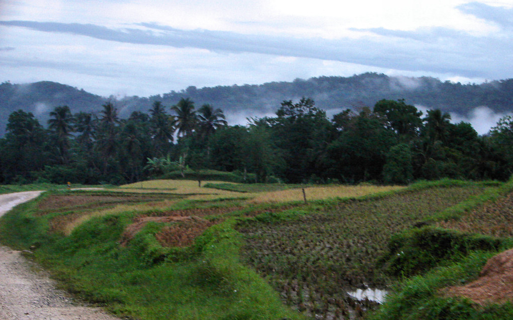 Sierra Bullones, Bohol, the Philippines